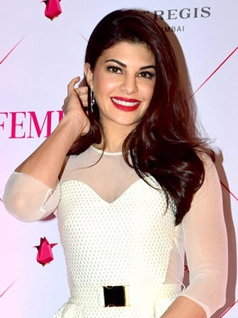 ‘Femina Beauty Awards 2017’